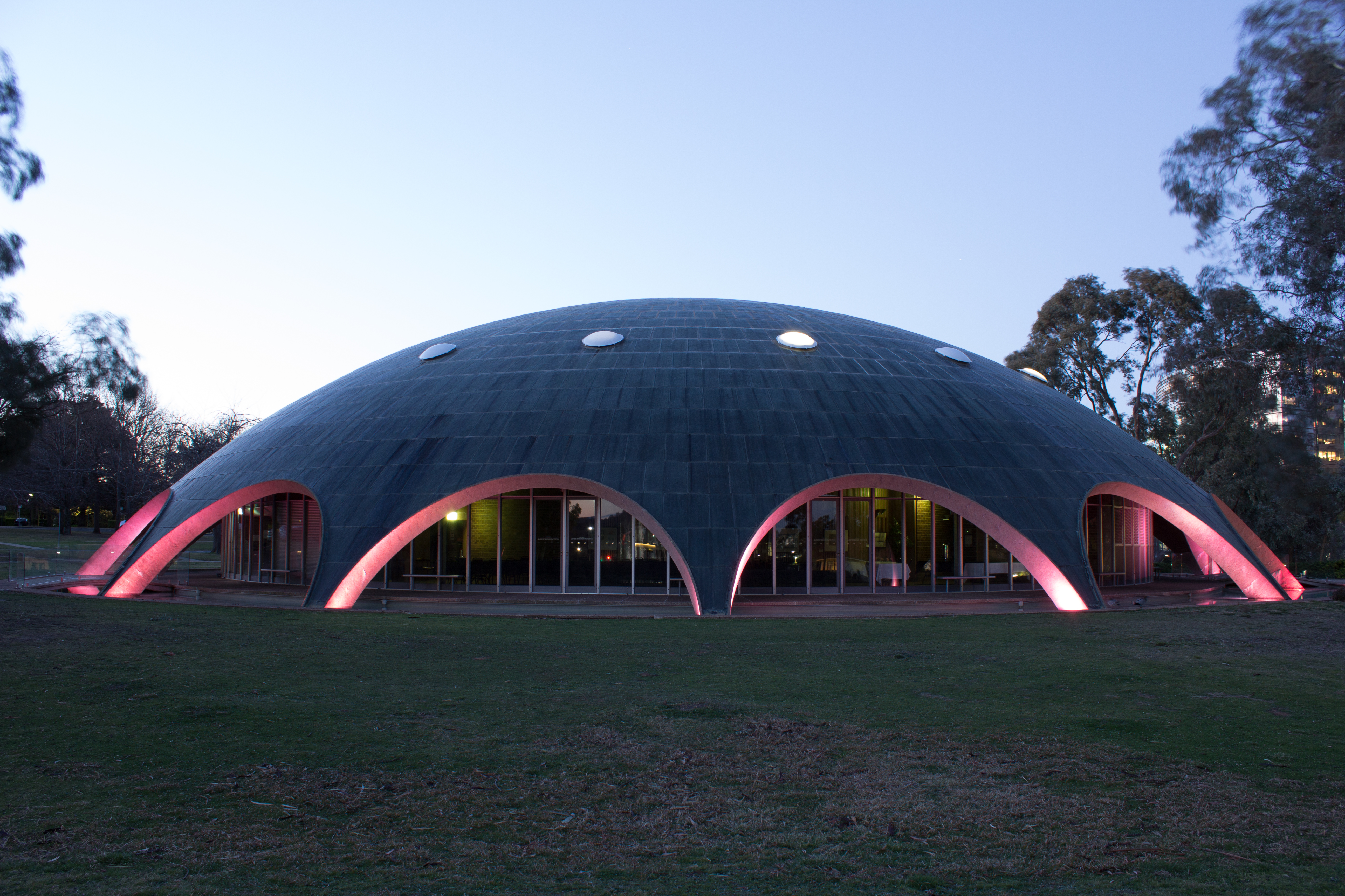 Australian Academy of Science Building, Canberra, ACT, Australia. Photo taken 10/09/2017